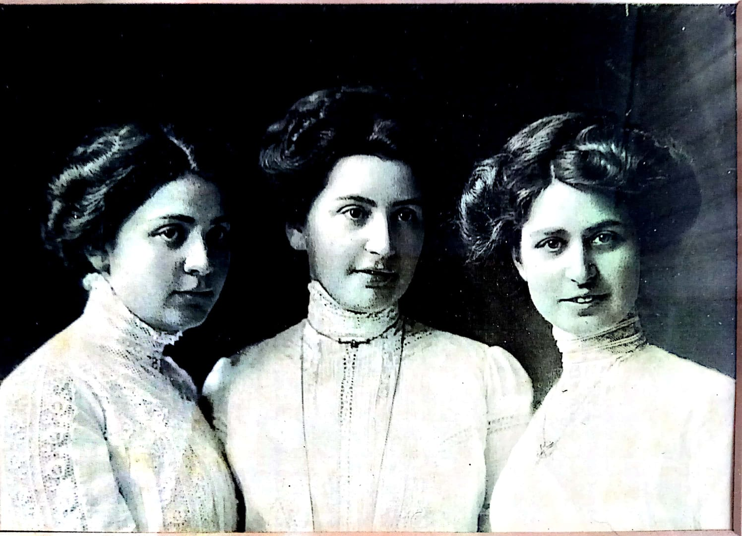 photograph of the Goldstein sisters: Alice, Hedwig and Anni.